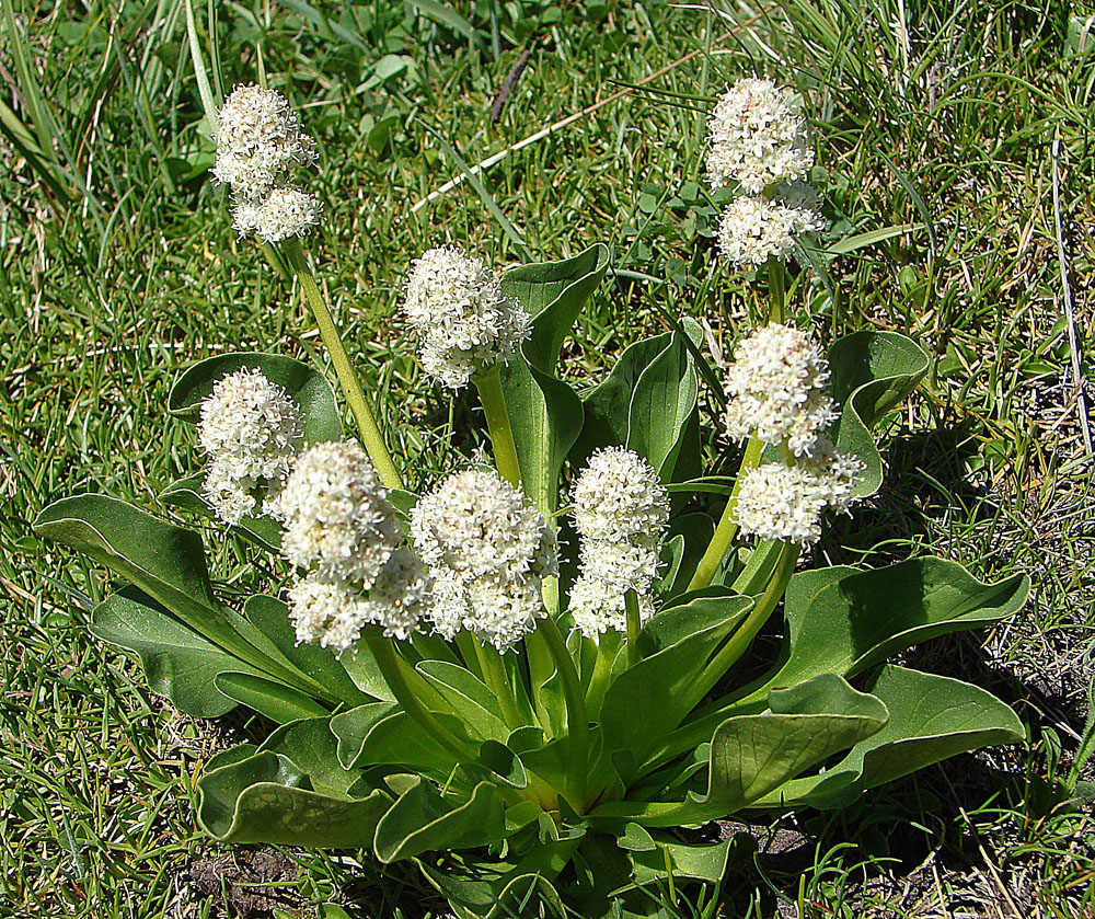 A species of the southern Andes, known simply as Valeriana. In context at